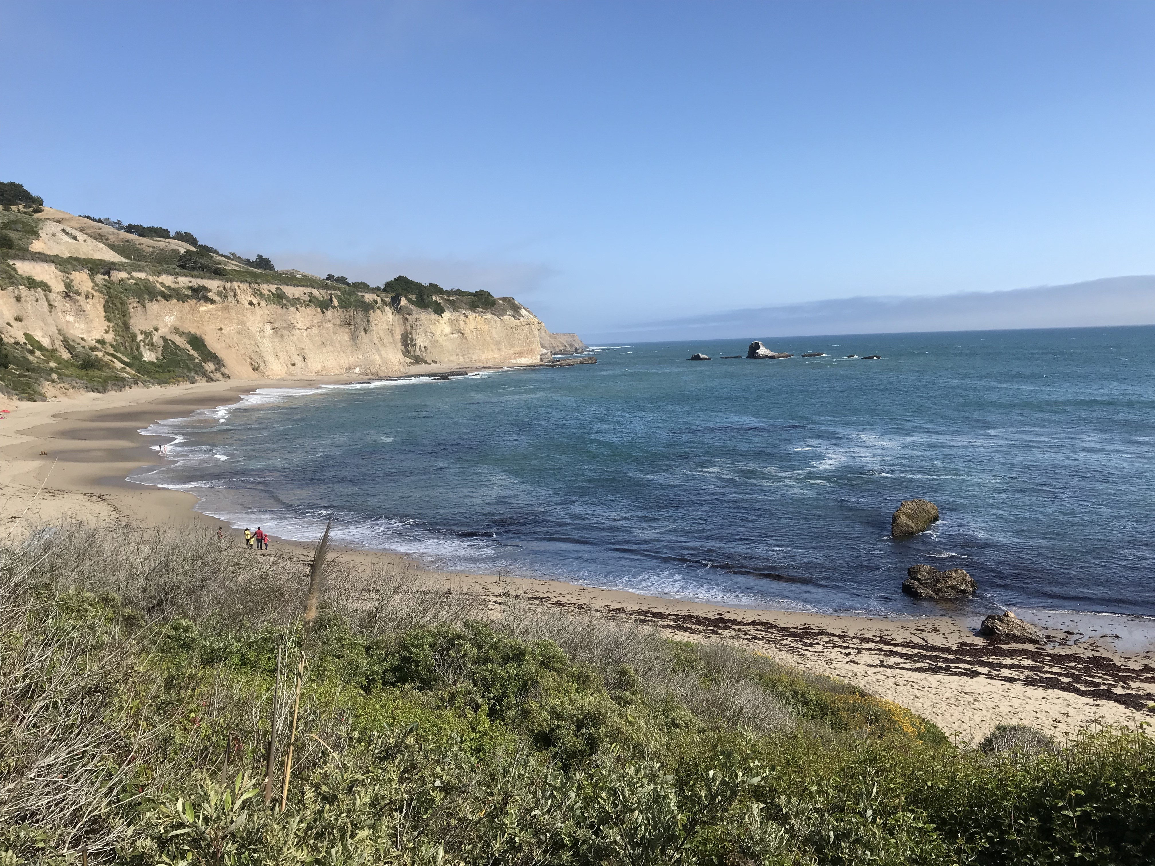 Greyhound Rock Beach in Davenport, Santa Cruz County, California. The beach is part of the Greyhound Rock State Marine Conservation Area.